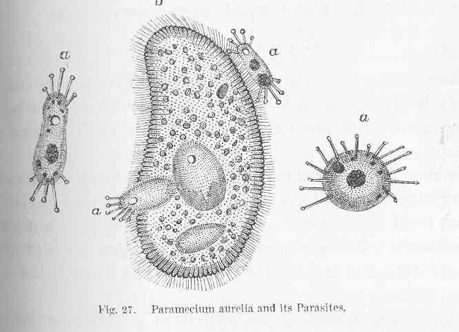 Paramecium aurelia and its Parasites Subject: Paramecium aurelia Tag: Invertebrates